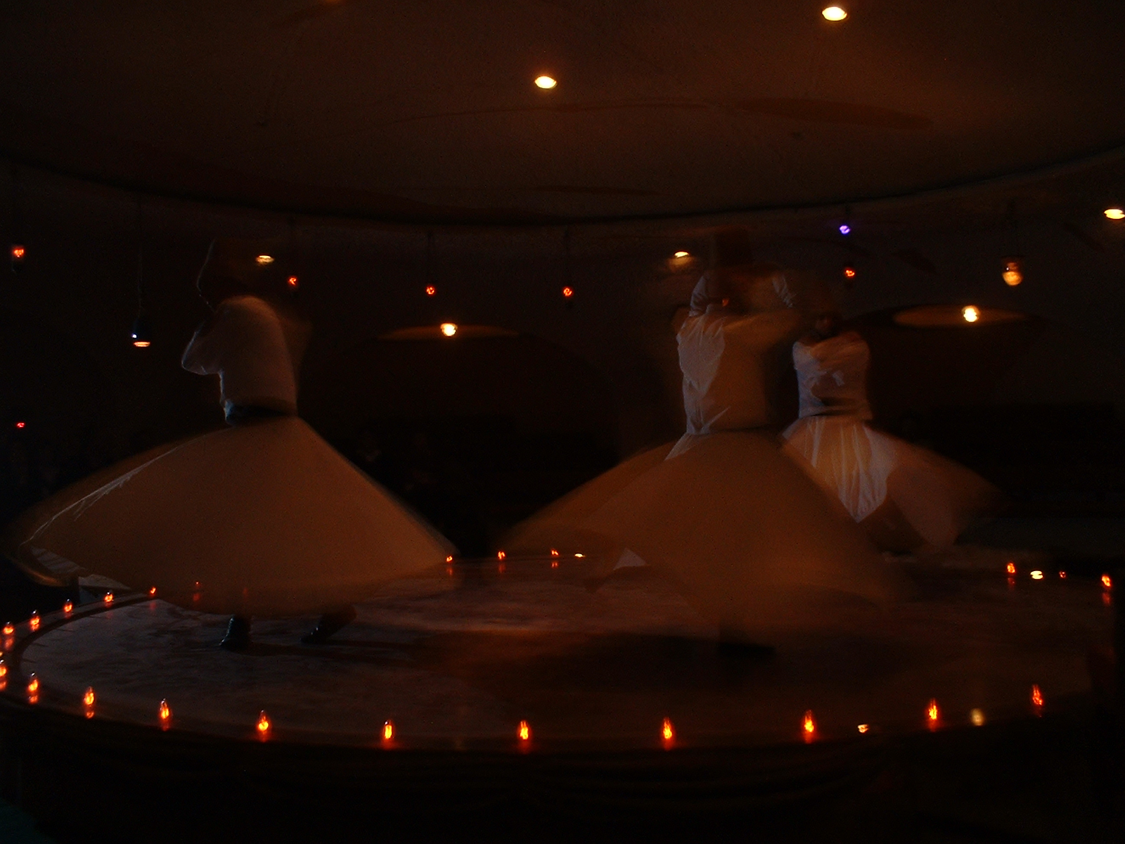 I took the picture myself in Turkey.